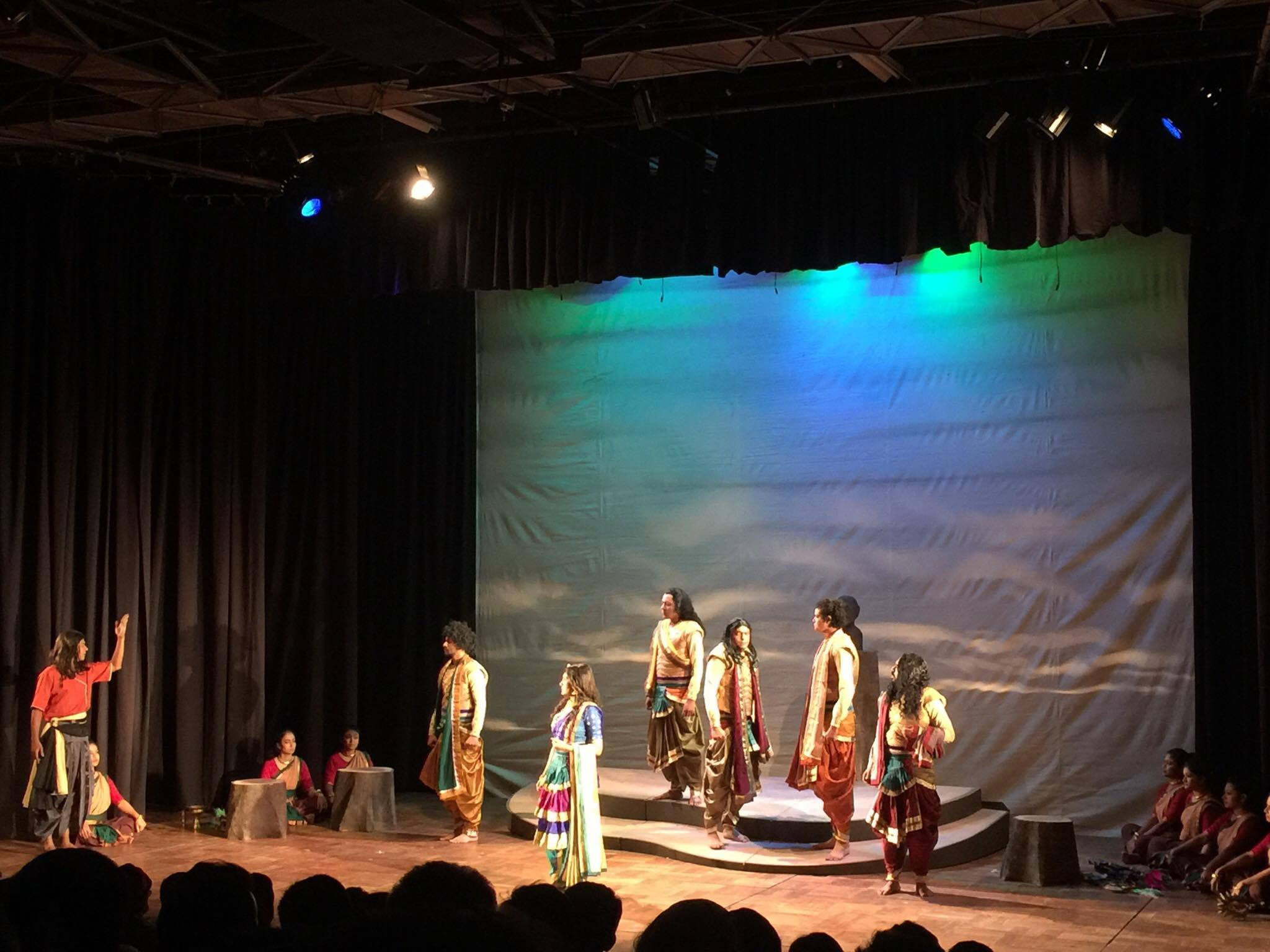 NityaPurana (